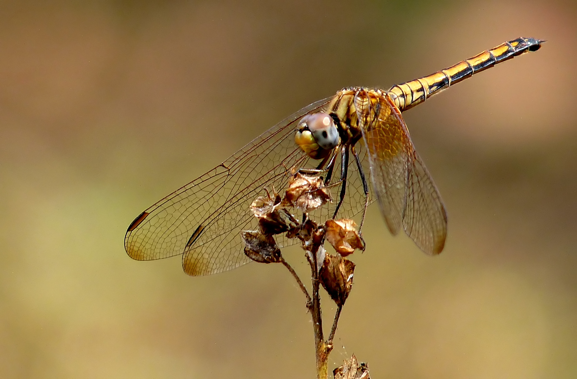 Trithemis aurora, Crimson Marsh Glider, is a species of dragonfly in the family Libellulidae. The male has a reddish brown face, with eyes that are crimson above and brown on the sides. The thorax is red with a fine, purple pruinescence. The abdomen, the base of which is swollen, is crimson with a violet tinge. The wings are transparent with crimson venation and the base has a broad amber patch. The wing spots are a dark reddish-brown and the legs are black. The female has an olivaceous or bright reddish-brown face with eyes that are purplish-brown above and grey below. The thorax is olivaceous with brown median and black lateral stripes. The abdomen is reddish-brown with median and lateral black markings. The black markings are confluent at the end of each segment and enclose a reddish-brown spot. The wings are transparent with brown tips. The venation is bright yellow to brown and basal amber markings are pale. The wing spots are a dark brown and the lags are dark grey with narrow yellow stripes. Taken at Kadavoor, Kerala, India.